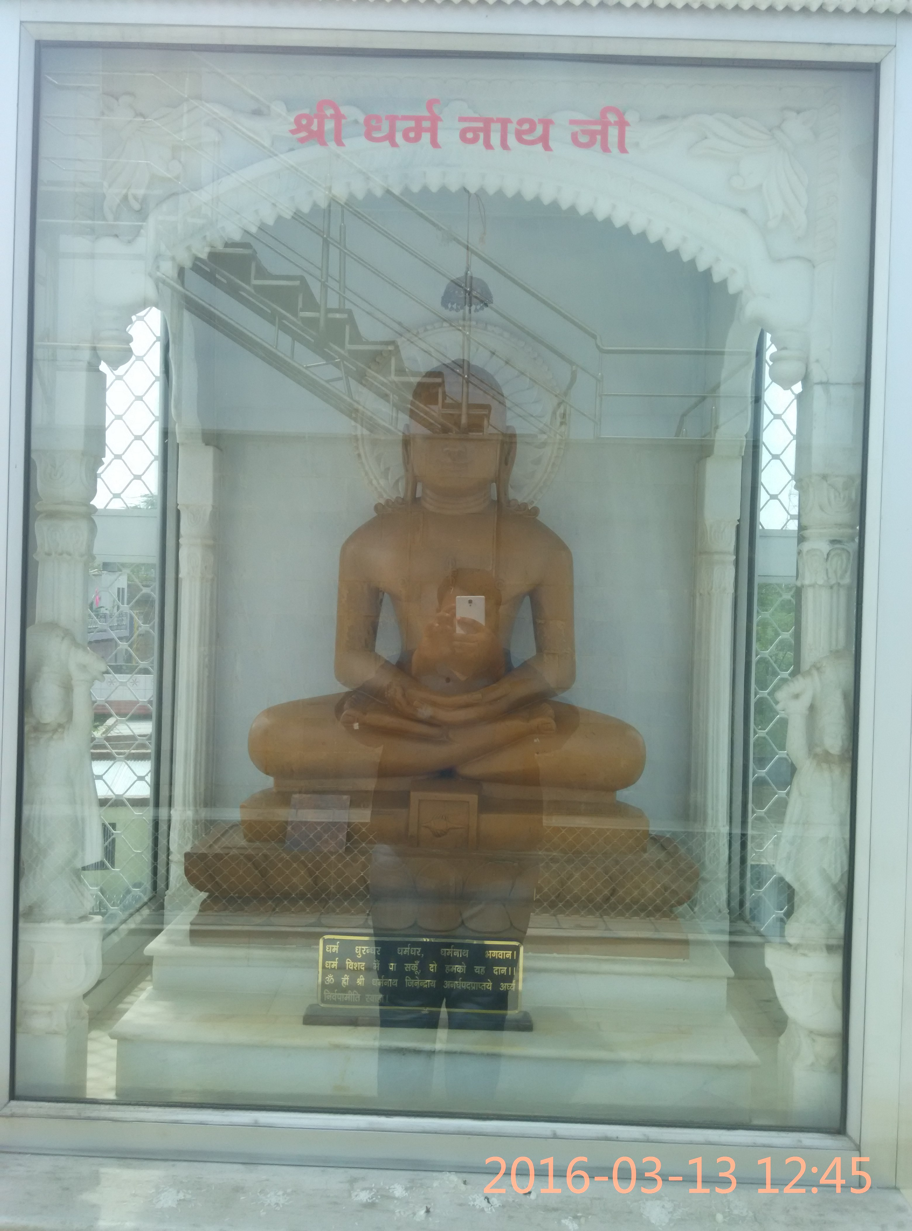 Dharmanatha